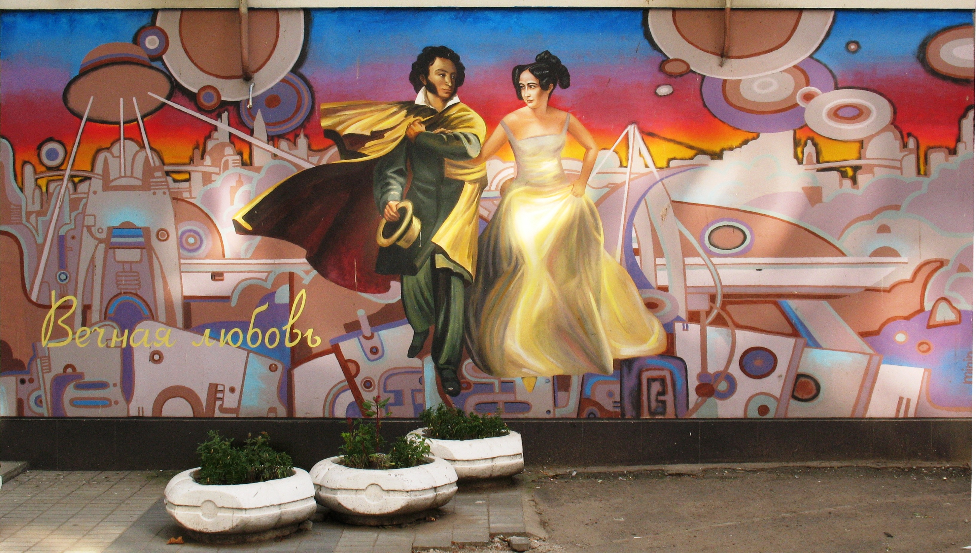 Aleksandr Pushkin and his wife on graffiti. Kharkov, 2008.